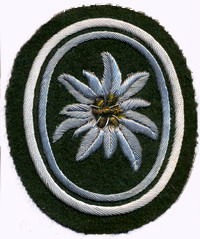 coat of arms of the Bundeswehr (Armed Forces of the Federal Republic of Germany). → Remarks on naming and categorization scheme